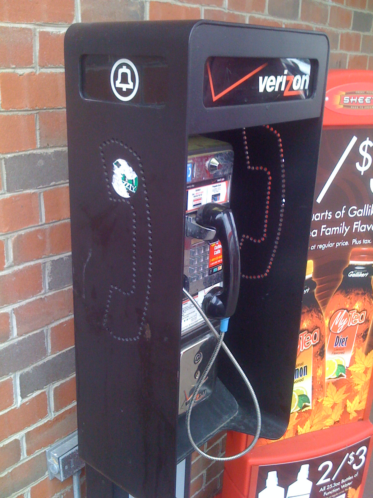 Used to describe continued use of Bell logo within Verizon. Took image myself 11/06/2008.